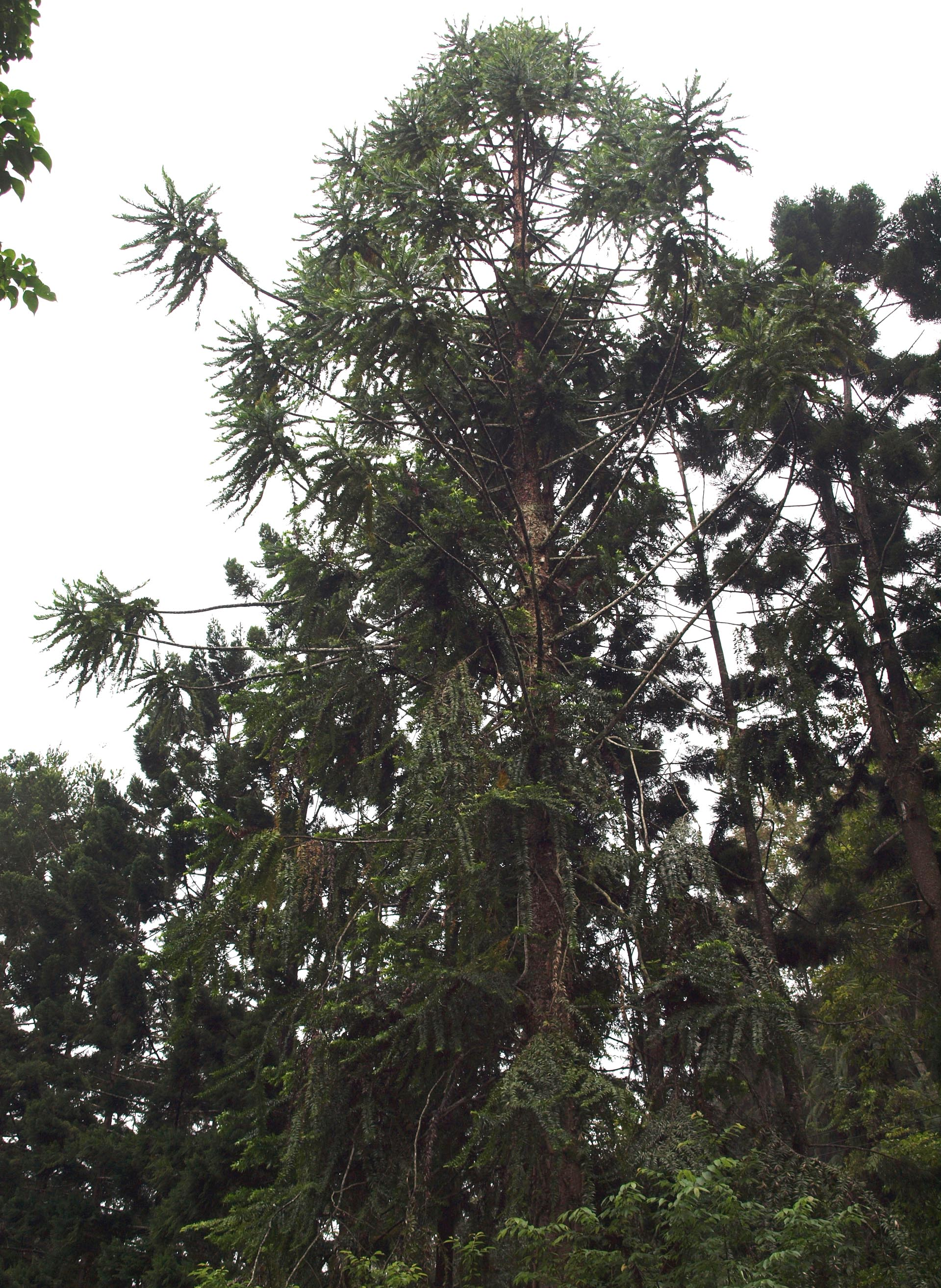 Araucaria hunsteinii mature tree.